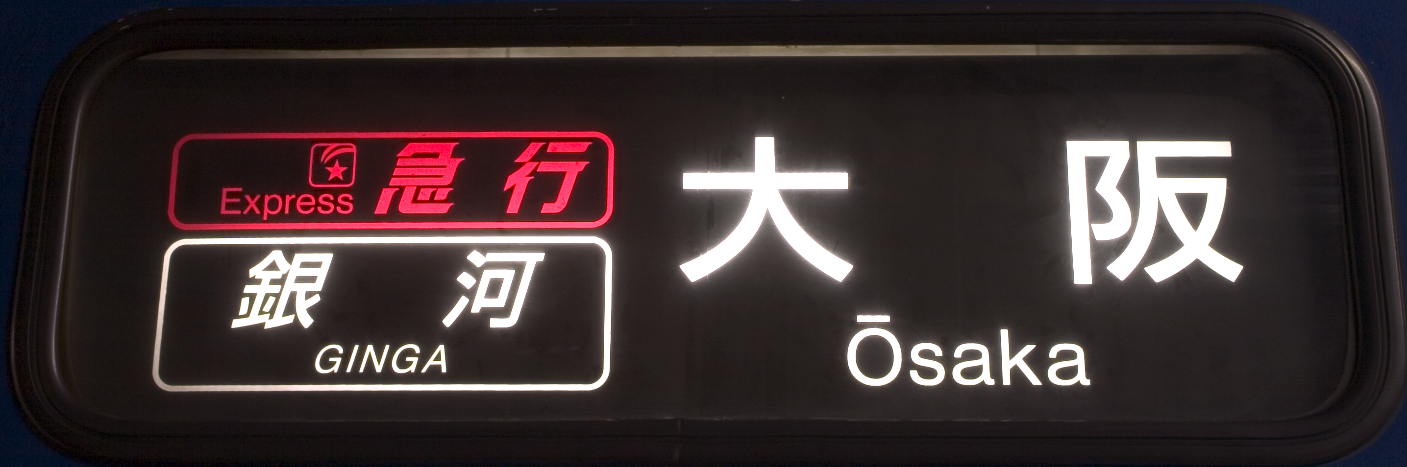 Camera image of the sign on the Ginga train bound for Osaka.